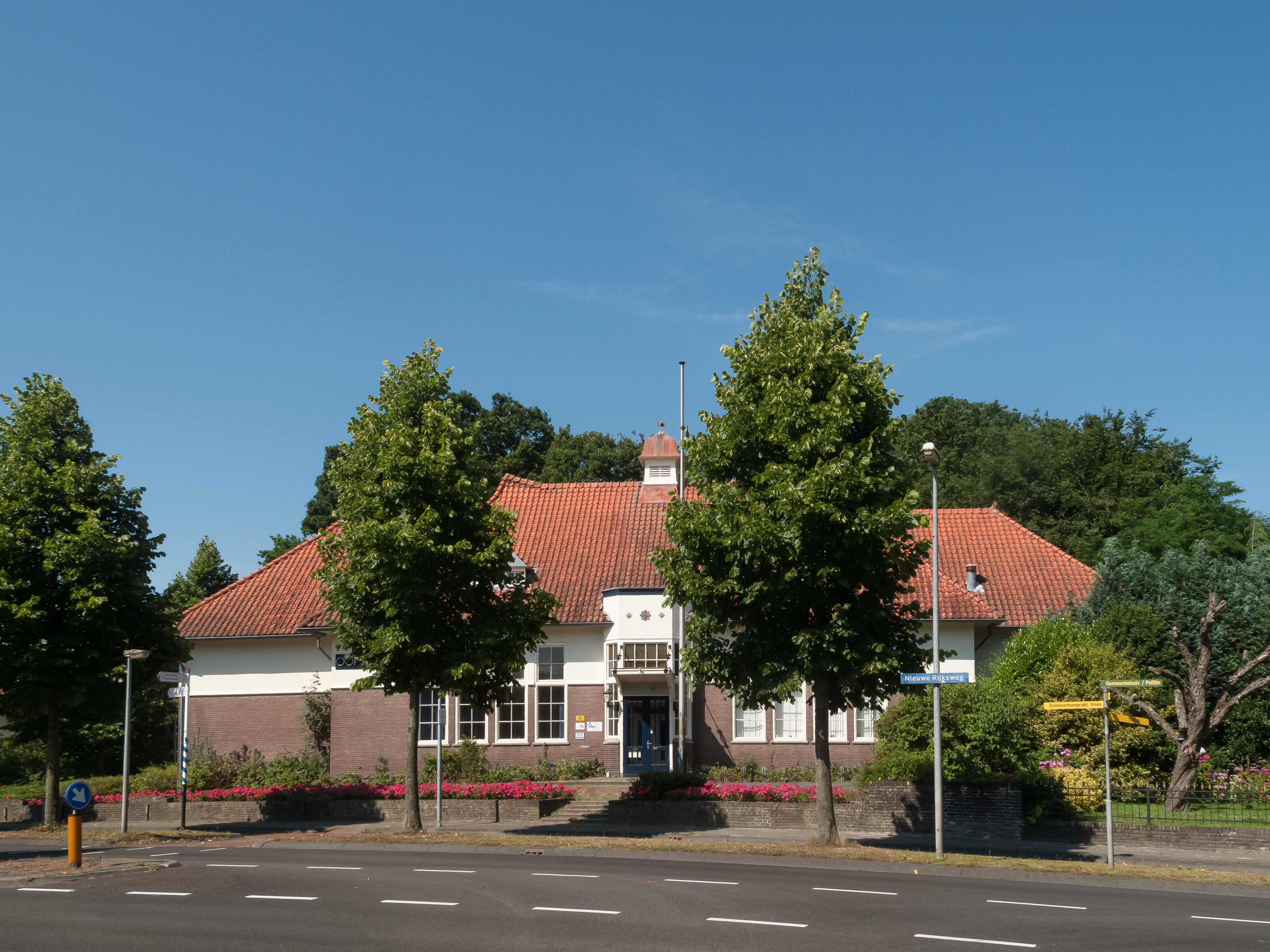 Vries, former primary school and public library: het Dorpshuis